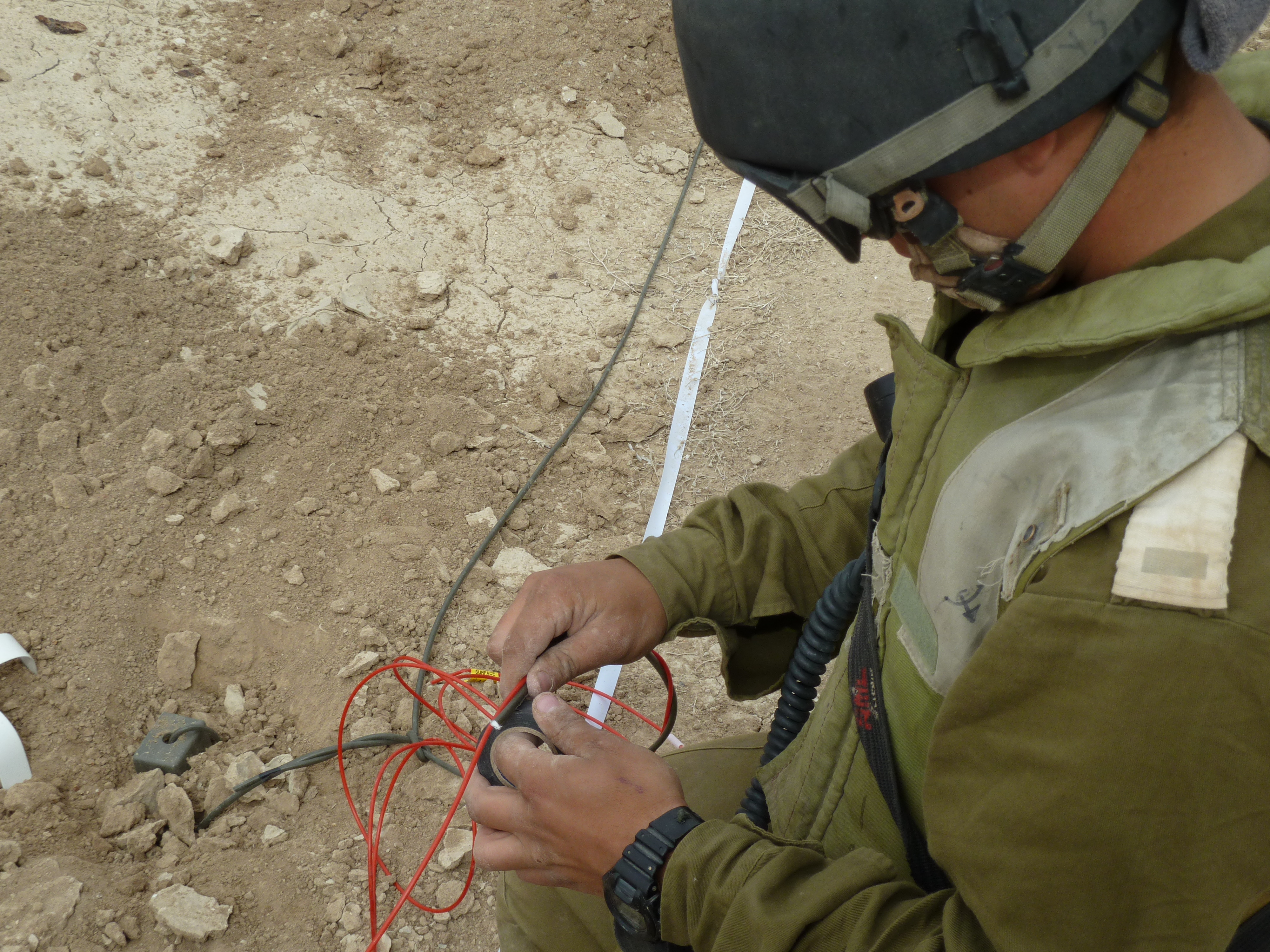 February 15, 2012 Since signing the Treaty of Peace with Jordan (1994), the IDF's Combat Engineering corps has worked rigorously in order to clear the hundreds of mine fields planted in the Jordan Valley for reasons of safety and agriculture. Today, more than 12,000 mines have been cleared, with more than 1,500 of them cleared over the last week. Pictured above are the soldiers of the Combat Engineering's Sapper Course, hitting the field and eliminating all danger. The Israel Defense Forces Facebook The Israel Defense Forces blog Follow us on Twitter